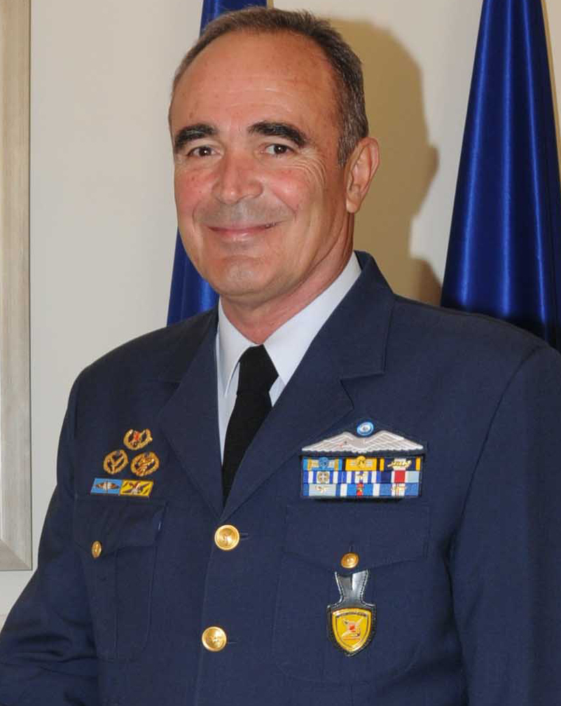 U.S. Navy Adm. James G. Stavridis (left), the commander of European Command and Supreme Allied Commander Europe, visits Greece Sept. 26, 2009. Here with Air Chf Mshl Ioannis Giagkos (right), Chief of the Hellenic National Defence General Staff